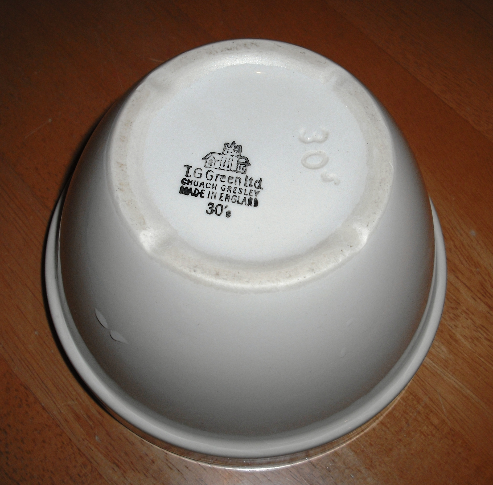 T.G. Green Bowl No 30 (inverted), showing the Church Gresley Trade Mark